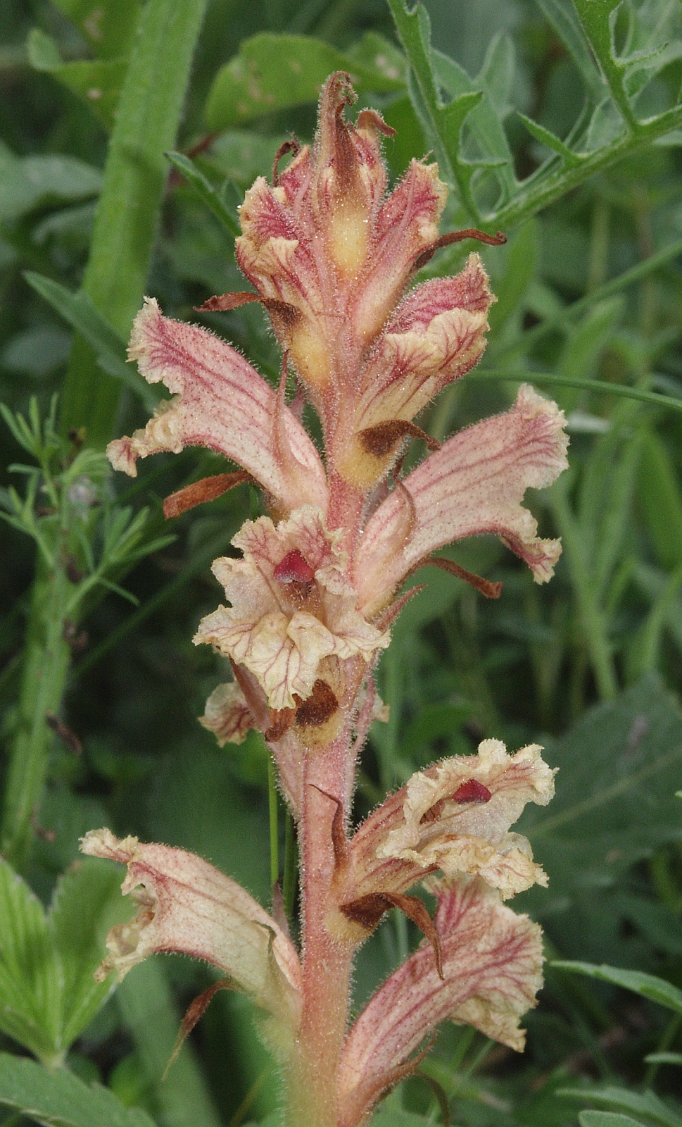 Orobanche alba, Tauberland, Germany